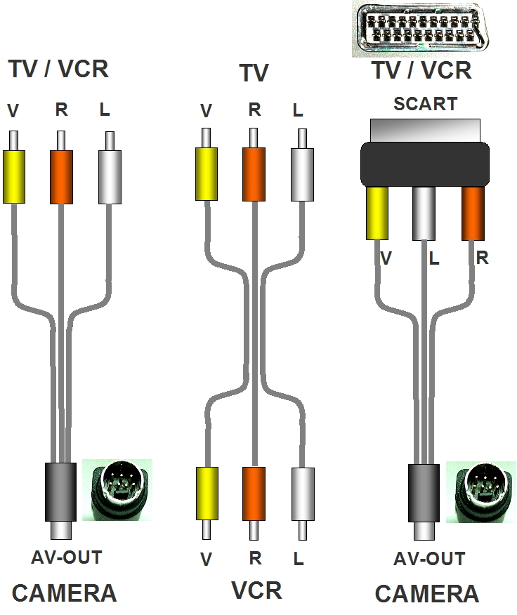 A/V Connections Metods